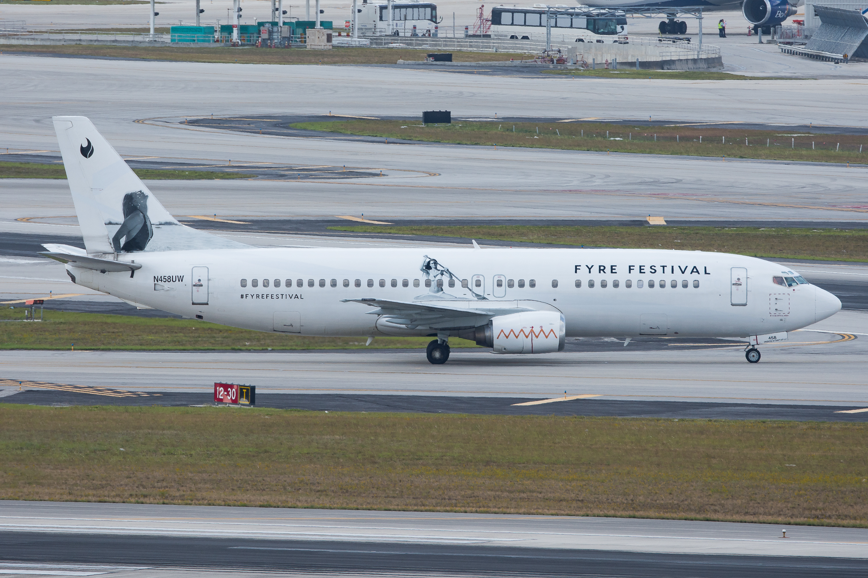 Boeing 737, painted to promote the Fyre Festival.